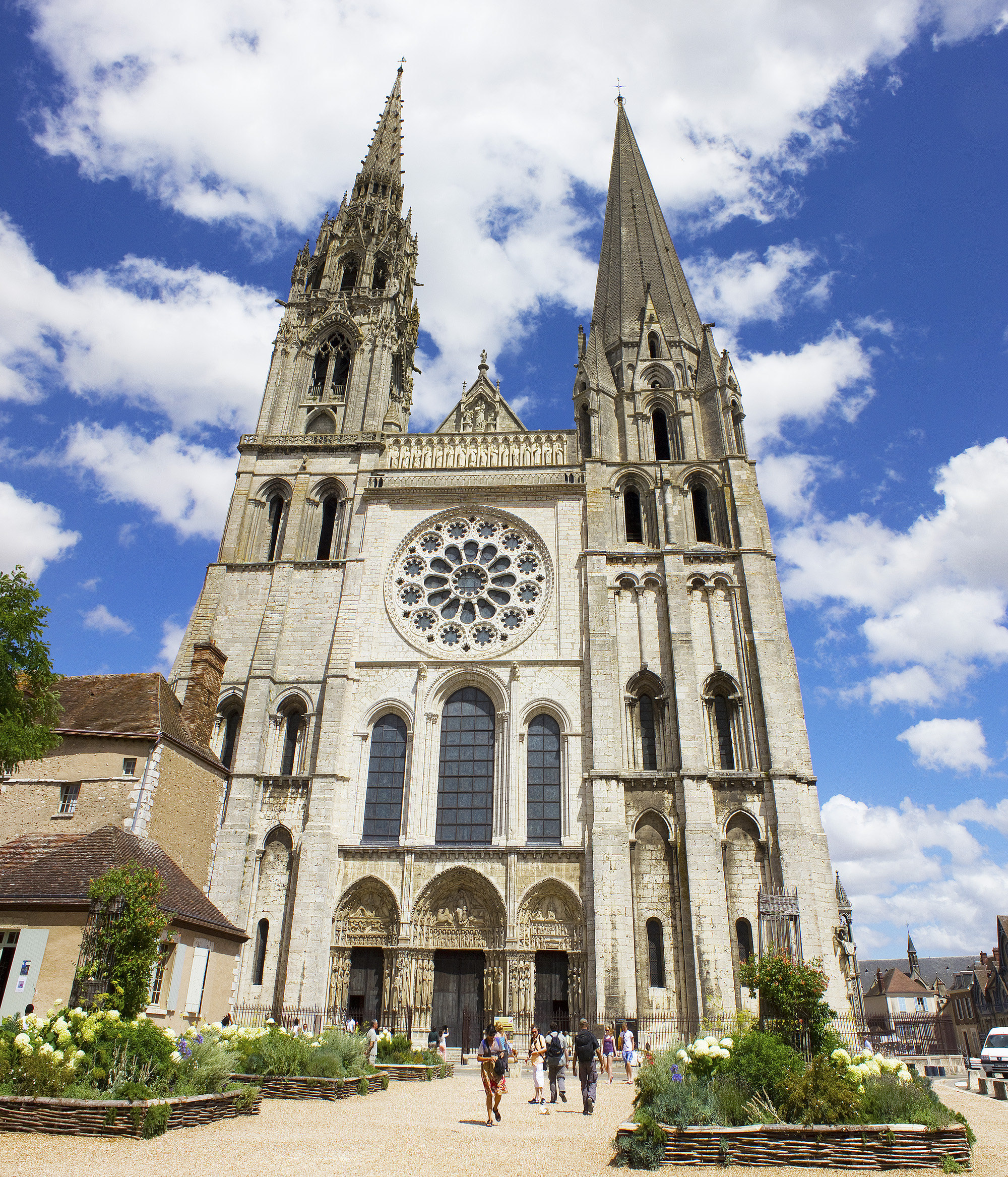 West façade of the Chartres Cathedral.